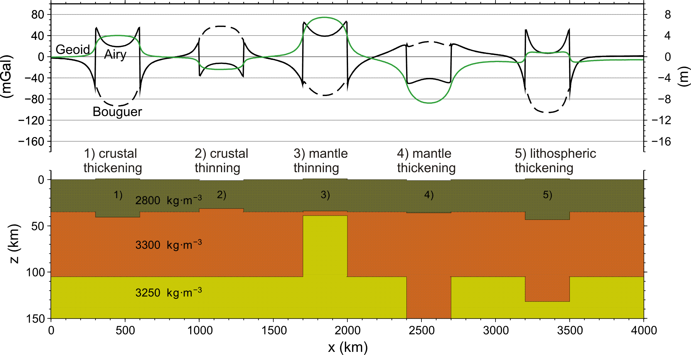 Gravity and Geoid anomalies caused by various crustal and lithospheric thickness changes relative to a reference configuration. a Created using the tAo open-source software (Garcia-Castellanos, 2002, Tectonics). All scenarios create a +/-1 km topography or bathymetry. Taken with permission from Garcia-Castellanos phD thesis, 1998